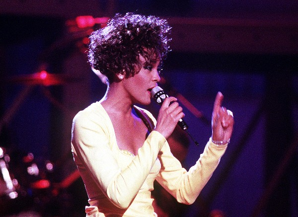 Whitney Houston talking to the audience before proceeding to perform "Saving All My Love for You" during the HBO-televised concert "Welcome Home Heroes with Whitney Houston" honoring the troops, who took part in Operation Desert Storm, their families, and military and government dignitaries.